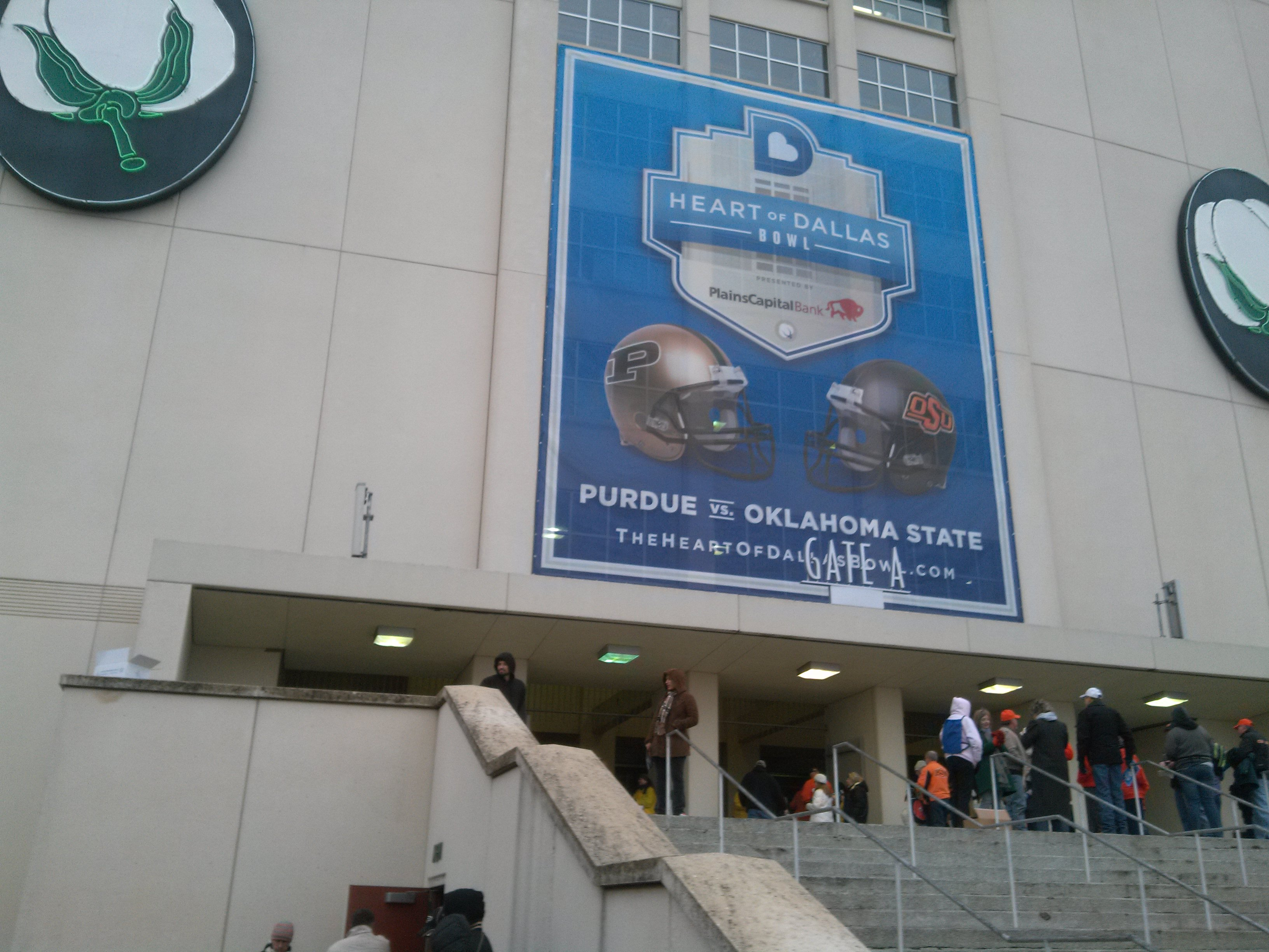 Banner at the entrance of the Cotton Bowl for the 2013 Heart of Dallas bowl game between Purdue University and Oklahoma State University.